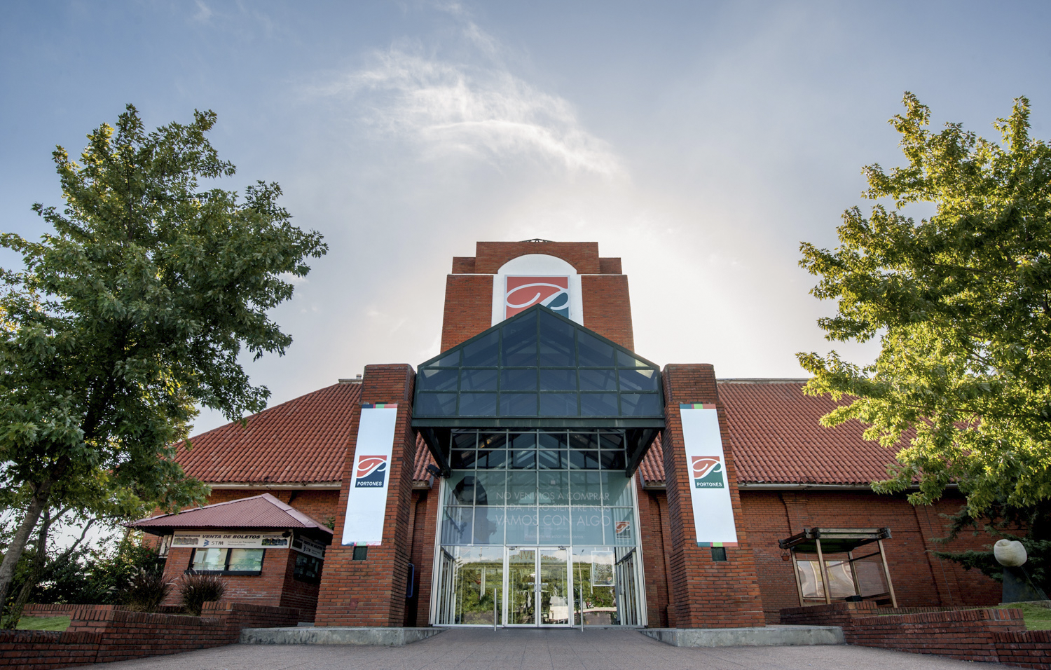 Portones Shopping entrance form Av. Bolivia